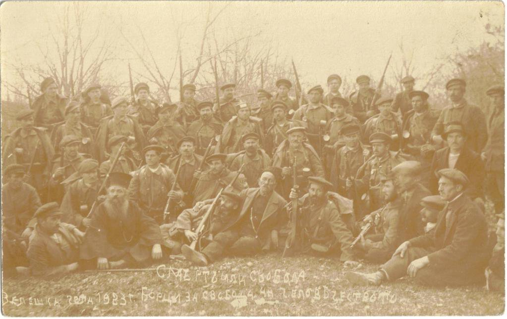 United cheta of IMRO - infront Mite Opilski, Ivan Burlyo and Marko Sekulichki